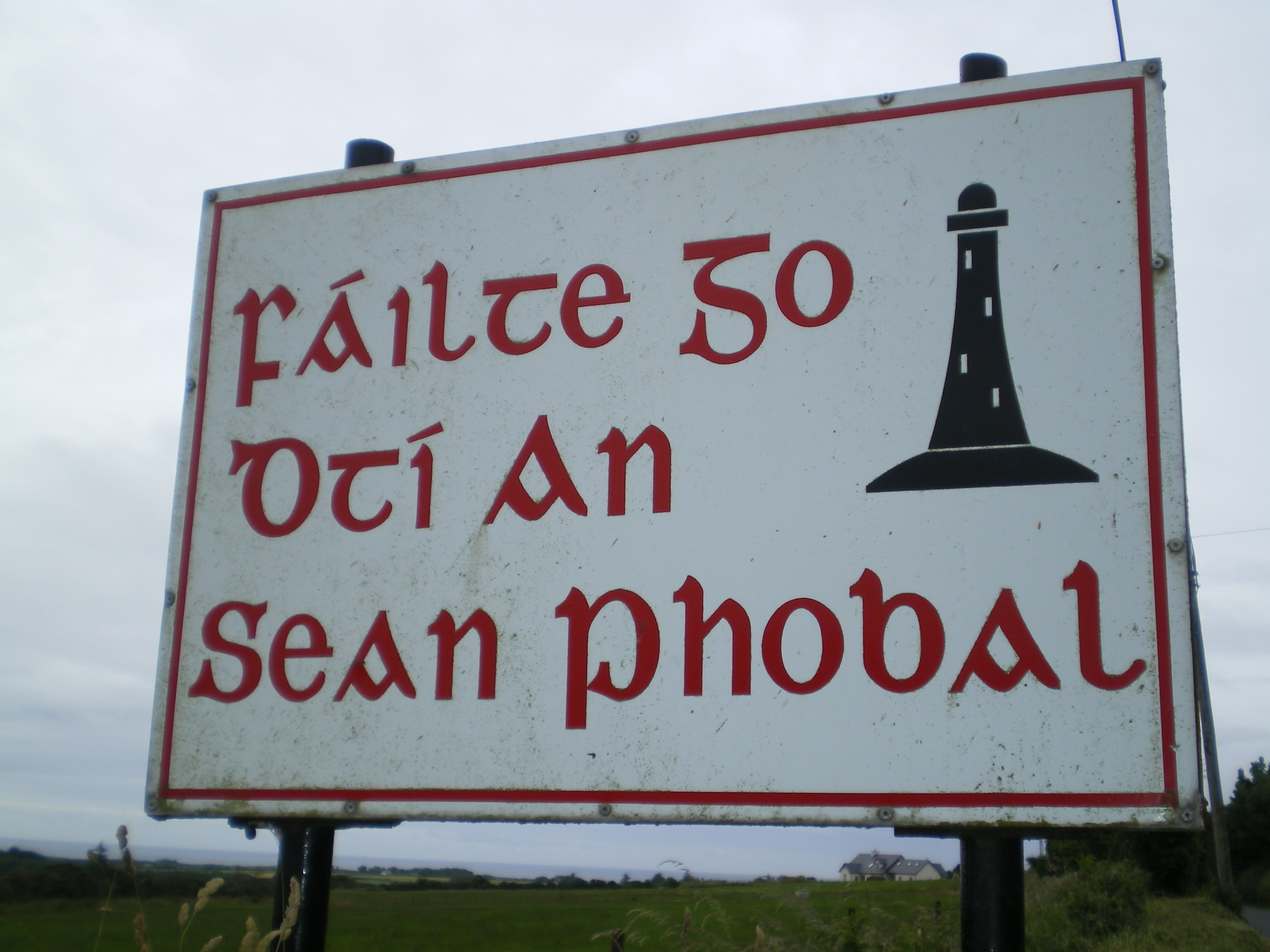 welcome sign for an sean phobail parish co. waterford Ireland